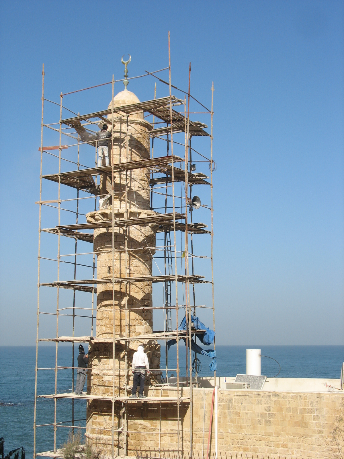 sea mosque in jaffa 2013